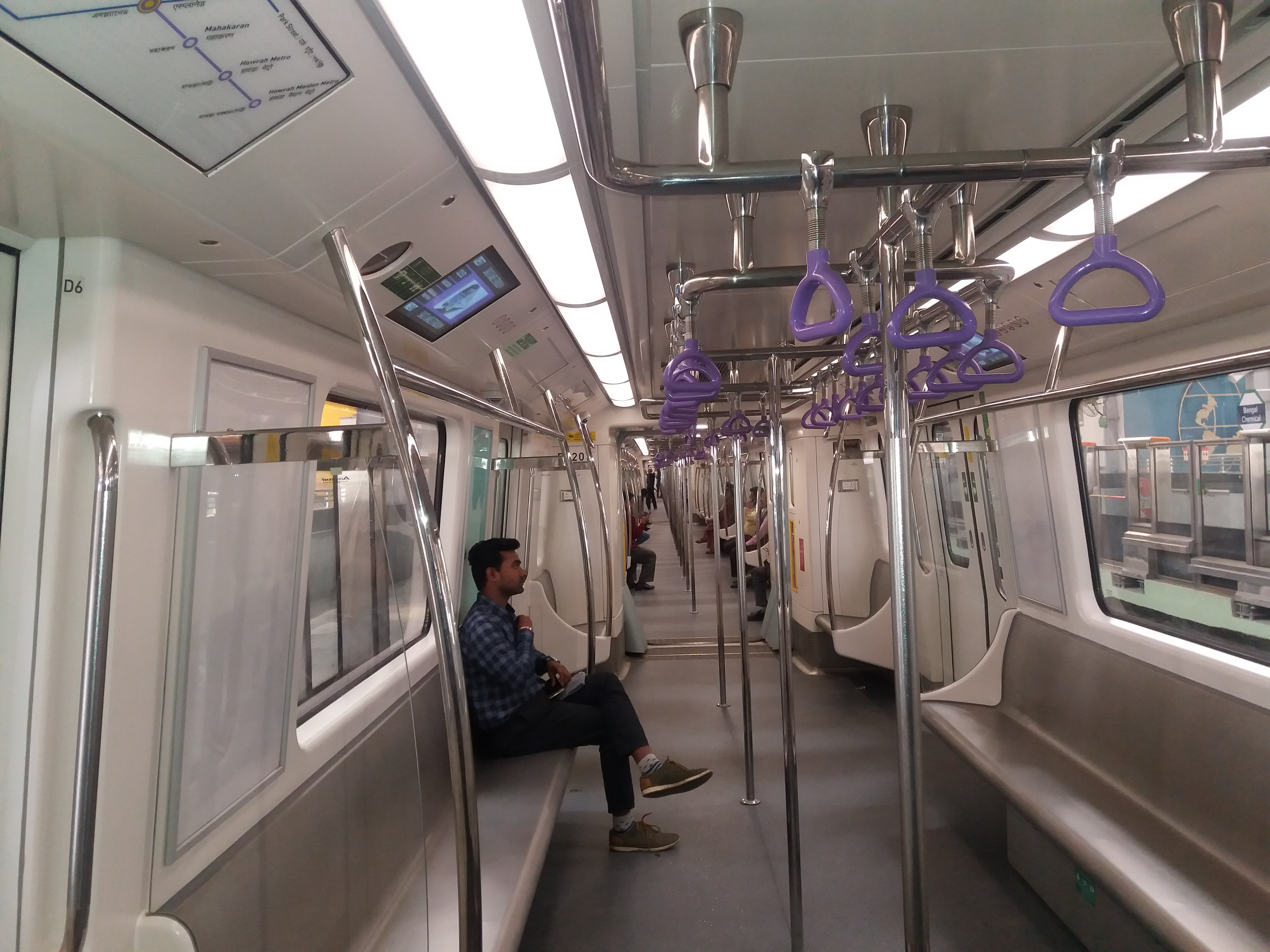 1st day opening east west metro kolkata line 2